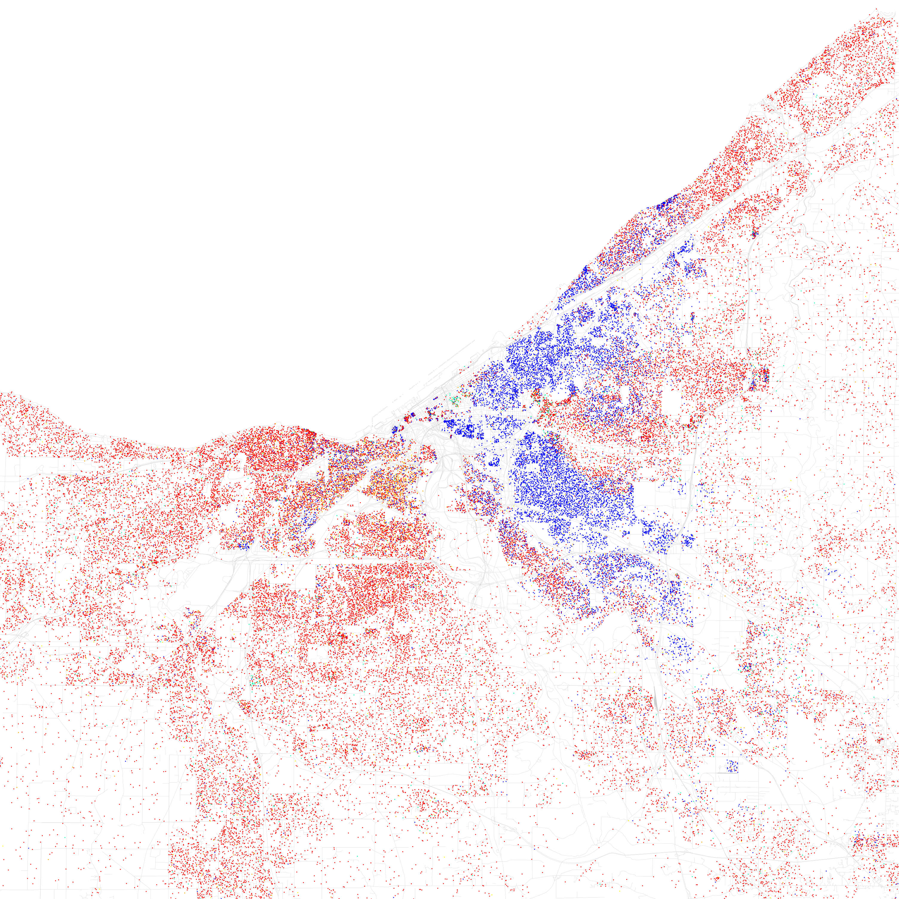 Maps of racial and ethnic divisions in US cities, inspired by Bill Rankin's map of Chicago, updated for Census 2010. Red is White, Blue is Black, Green is Asian, Orange is Hispanic, Yellow is Other, and each dot is 25 residents. Data from Census 2010. Base map © OpenStreetMap, CC-BY-SA